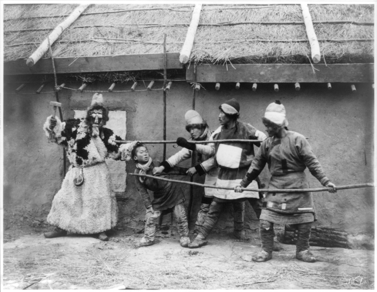 Title: Goldi tribesmen acting out folk drama, "The repulse of the kidnapper" Physical description: 1 photographic print : gelatin silver ; 8 x 10 in. or smaller. Notes: Similar to lantern slide W7-1151.; Forms part of: Jackson, William Henry, 1843-1942. World's Transportation Commission photograph collection (Library of Congress).; Gift; Colorado Historical Society; 1949.; Photographic print made by LC from Jackson's vintage film negative.